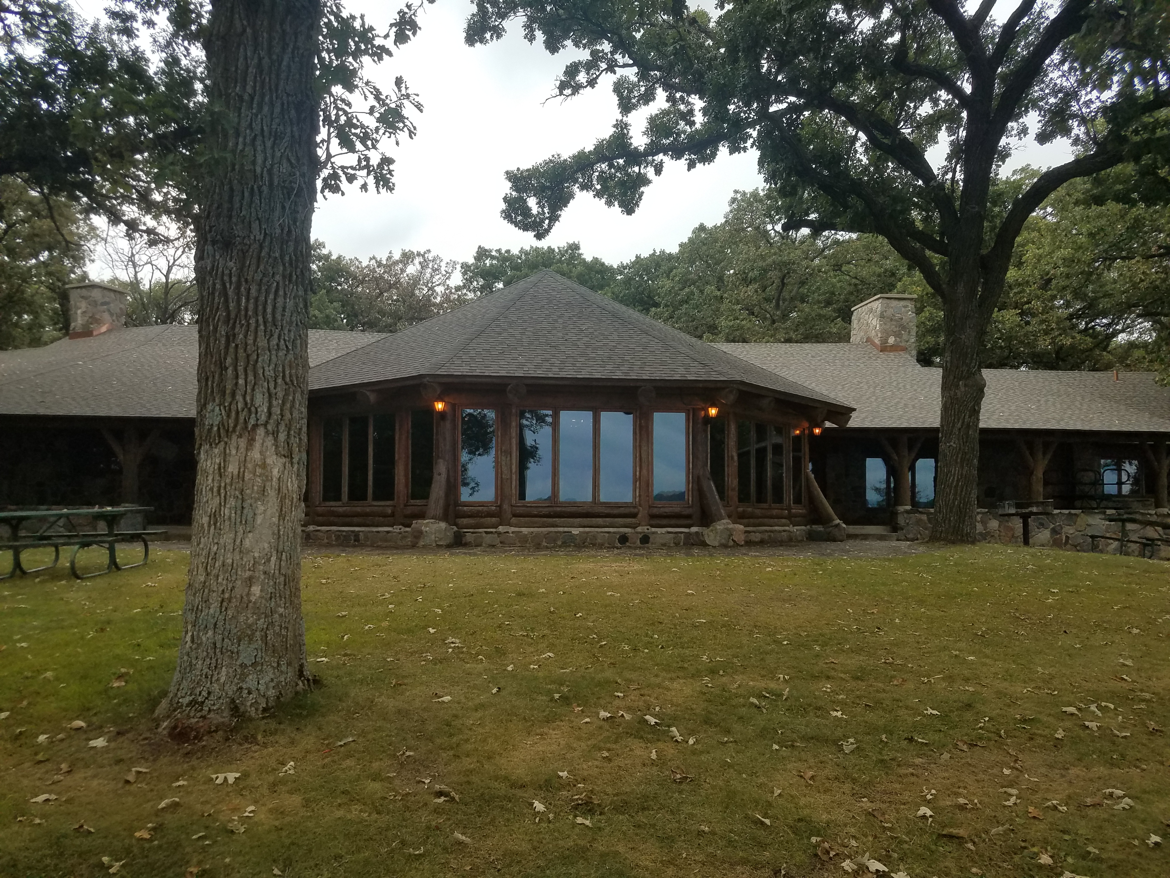 Dickinson County, Gull Point State Park, Area A. Wikidata has entry Q62926328 with data related to this item.